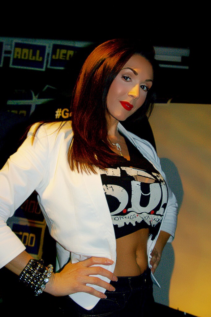 Photo taken of me (Taya Parker) for my Wikipedia page.